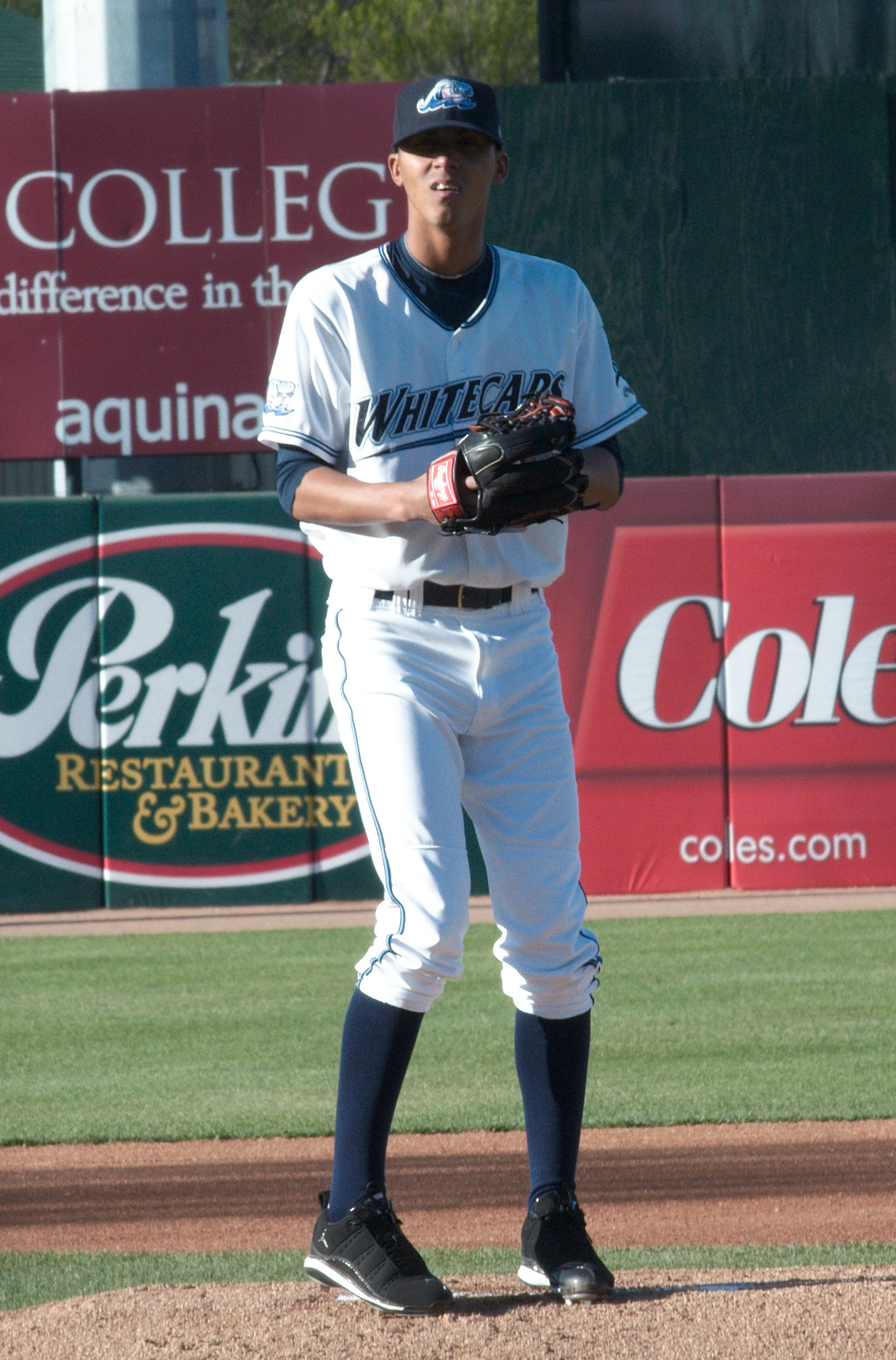 Giovanni Soto on the mound for the West Michigan Whitecaps in 2010